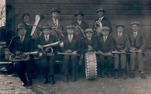 Estonia. Hiiumaa Brass Band, 1931